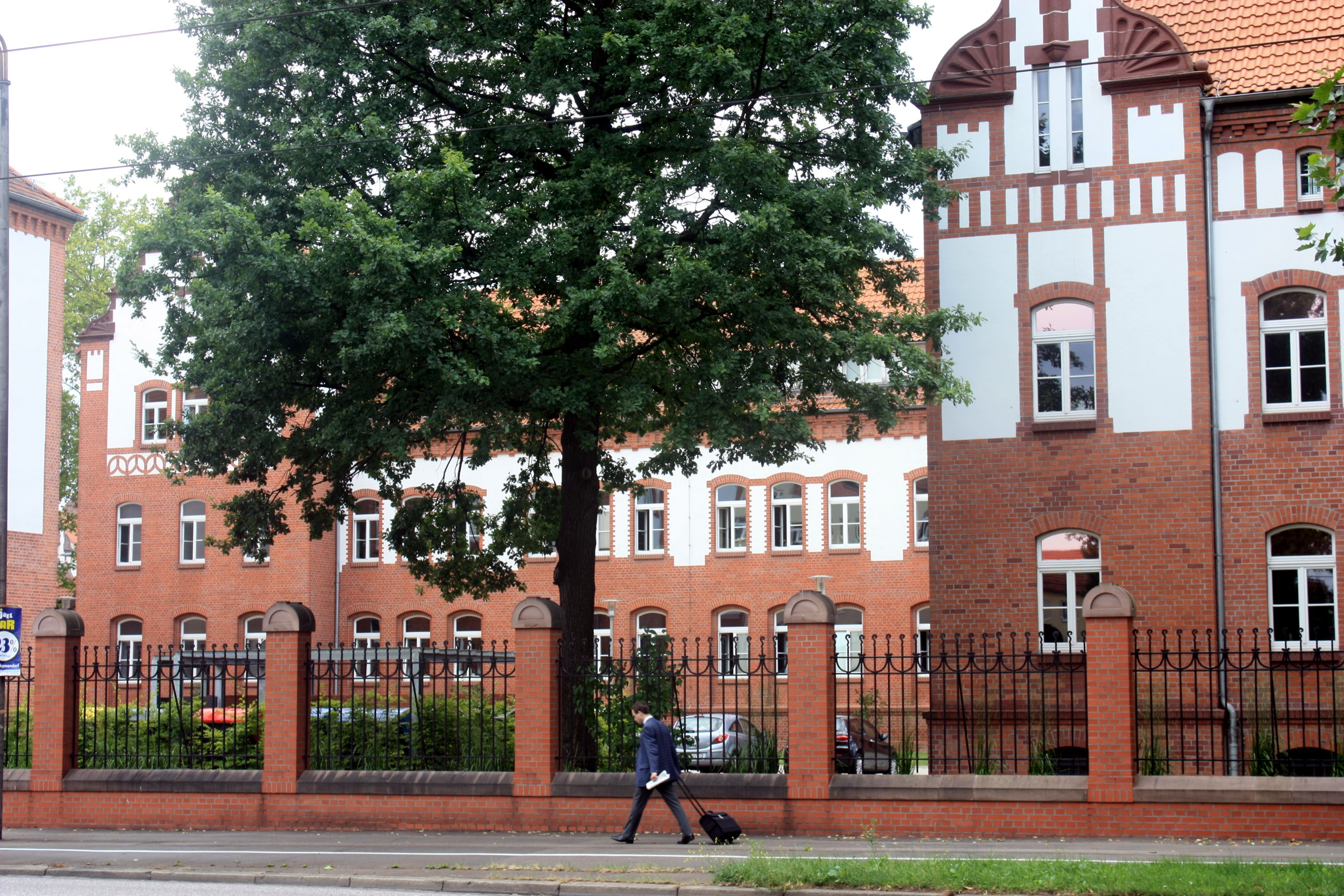 Halle (Saale), former barracks complex at the Merseburger Straße